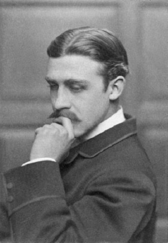 Photograph of James Rennel of Rodd, c. 1901